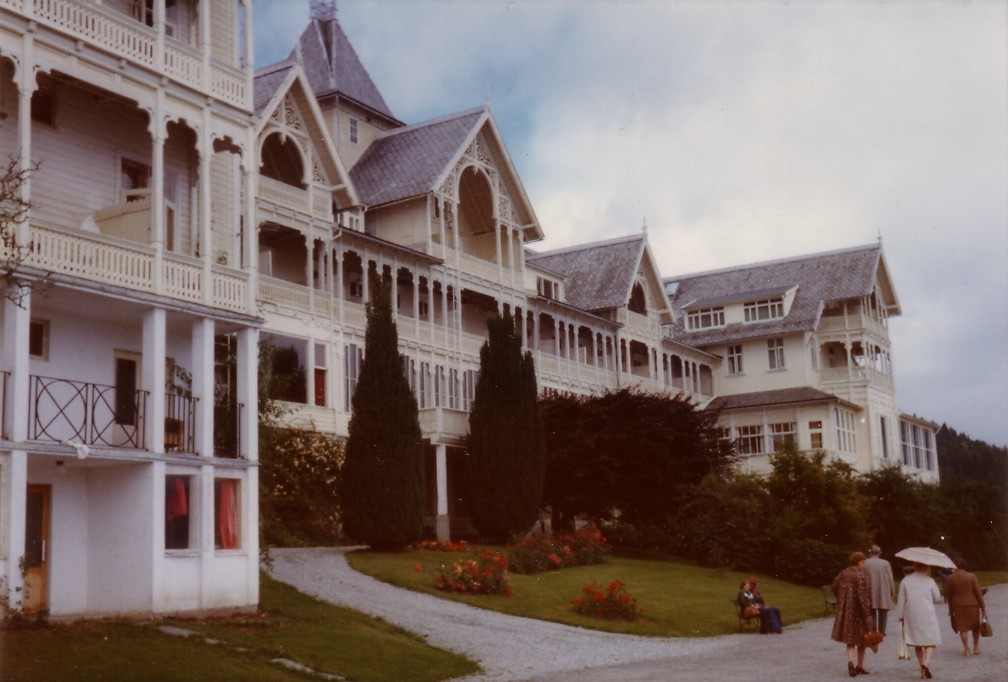 Kviknes Hotel in Balestrand, Norway